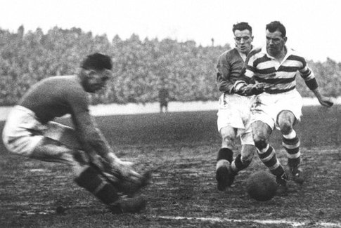 picture of Celtic FC player Jimmy McGrory in action